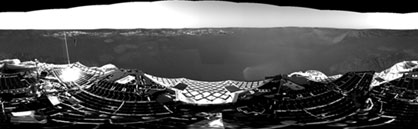 Opportunity rover: first picture